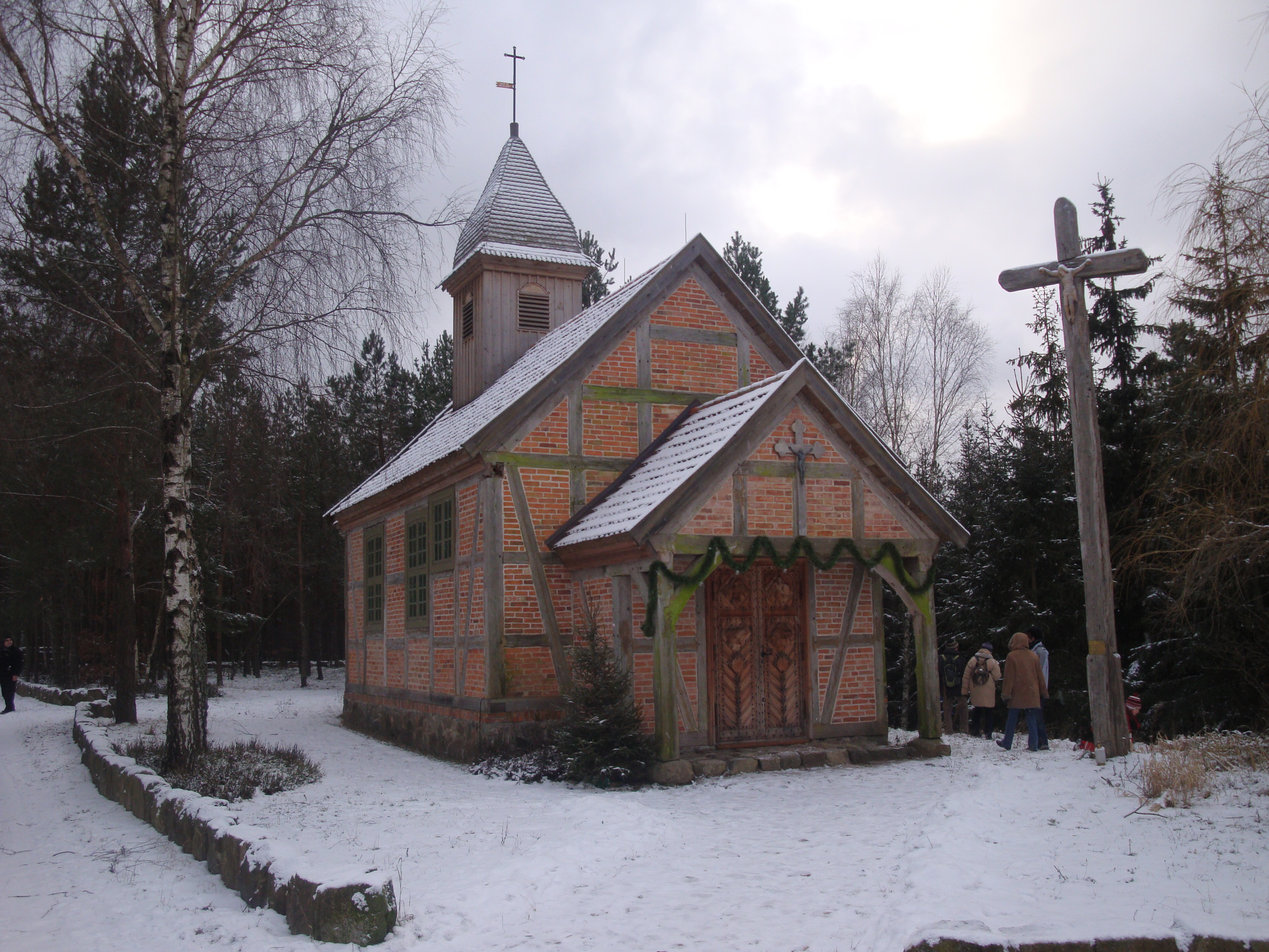 Church in Lizaki, Poland